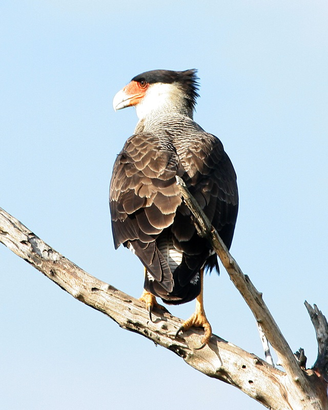 Southern Crested Caracara Caracara plancus, Ibera Marshes, Corrientes, Argentina